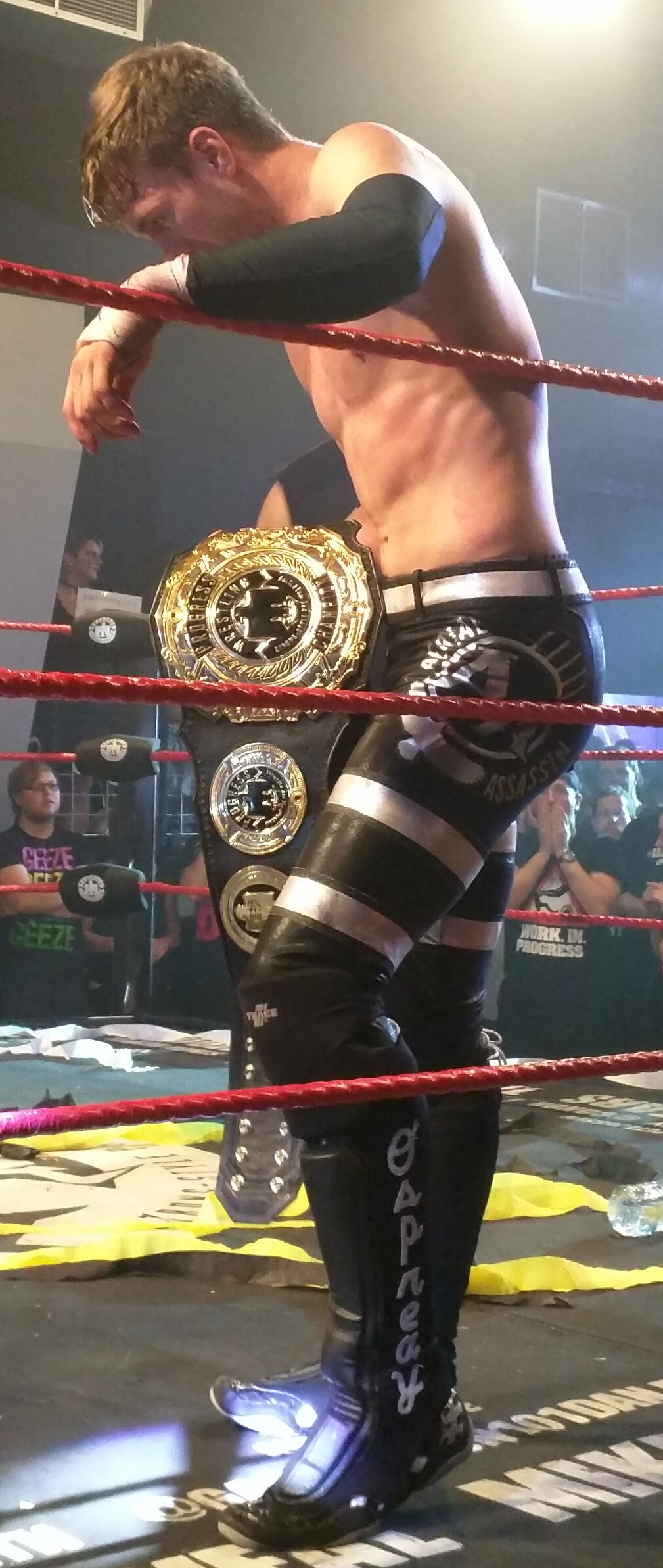 Will Ospreay in the ring after winning the PROGRESS Championship at the Electric Ballroom, Camden, 26th July 2015